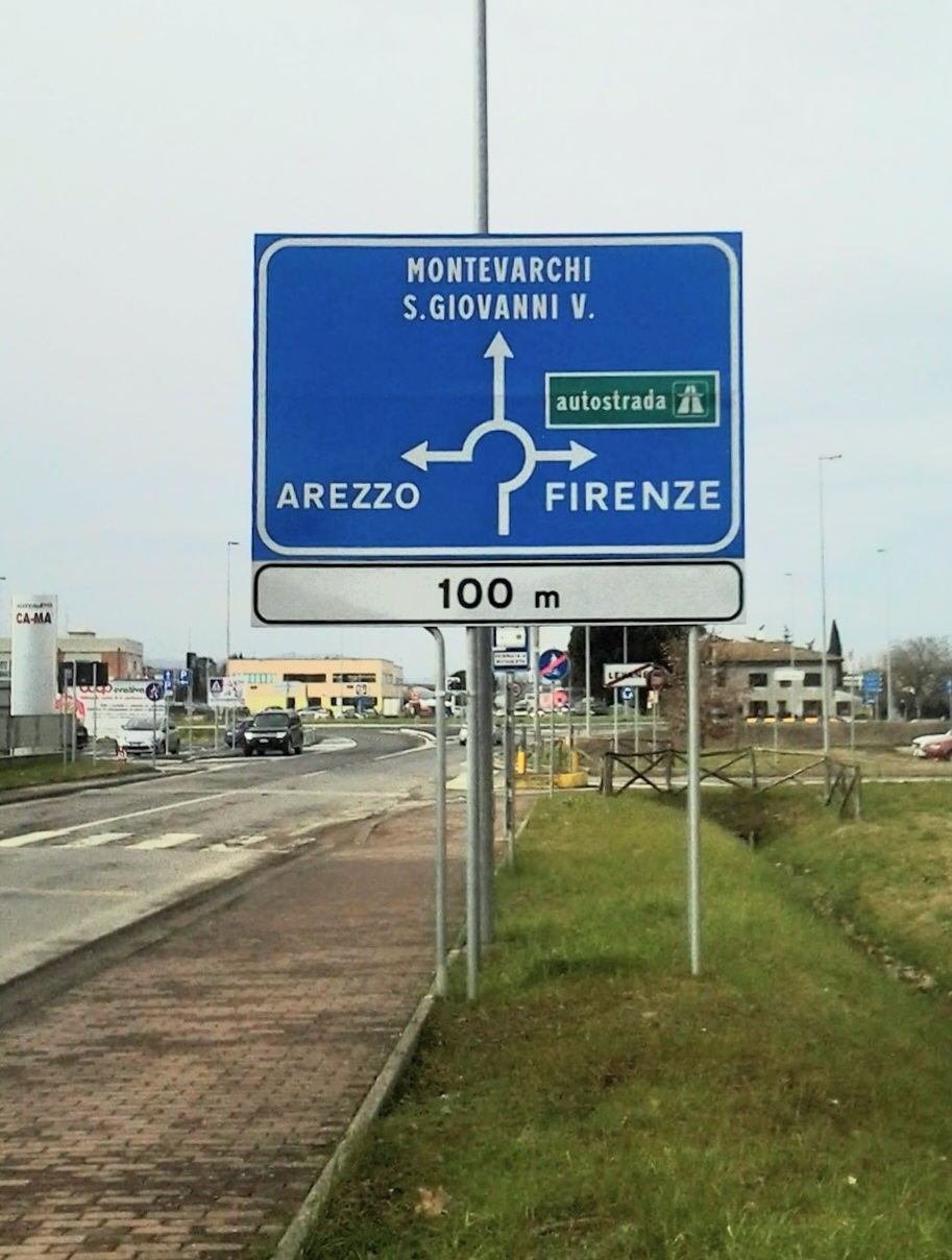 Roundabout in Levane (AR), frazione of Montevarchi and Bucine, Tuscany. Italy